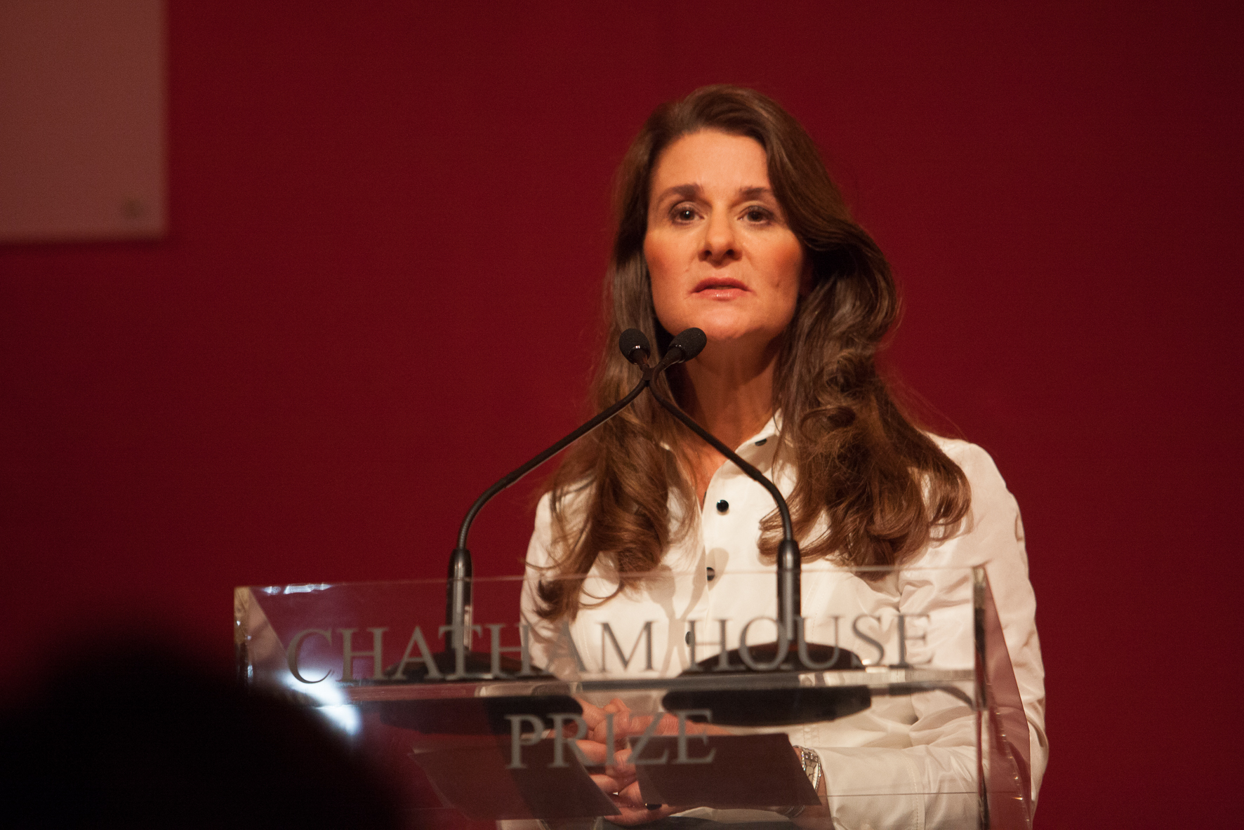 Chatham House Prize 2014